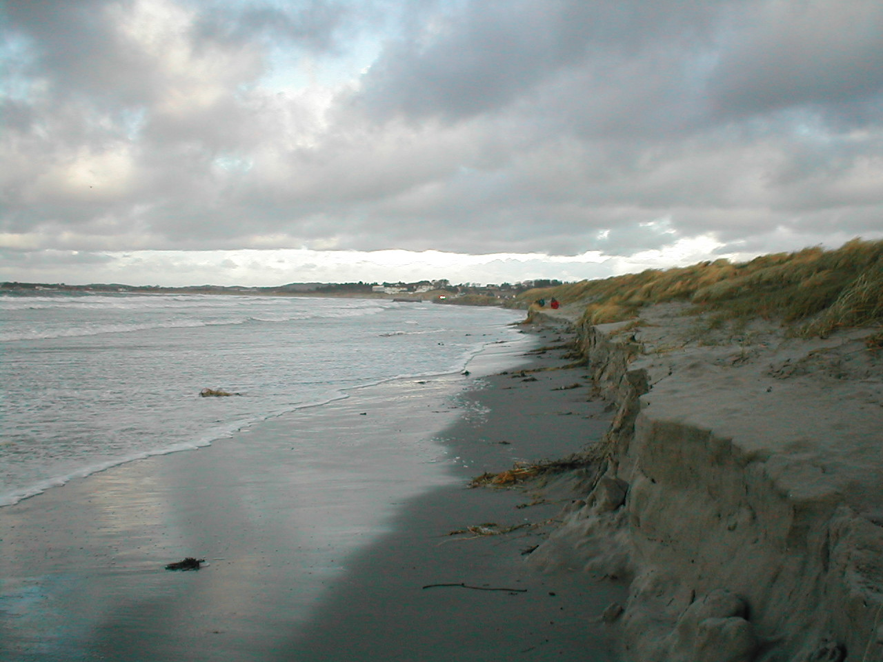 The beach at Sola in Rogaland